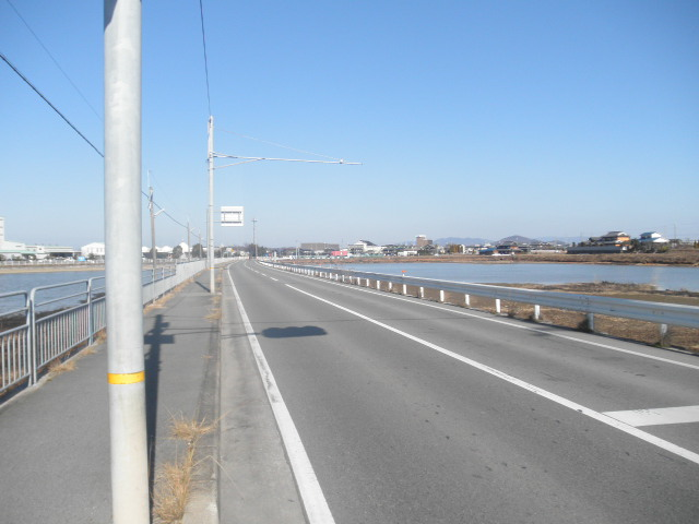 Inamitown Kunioka Hyogopref Hyogoprefectural road 381 Nodani Hiraoka line